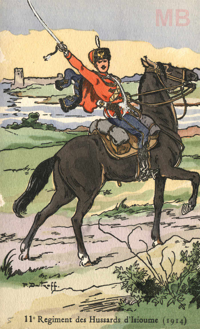 Uniform of Husar 11-en Izum Regiment. 1914 Postcard.